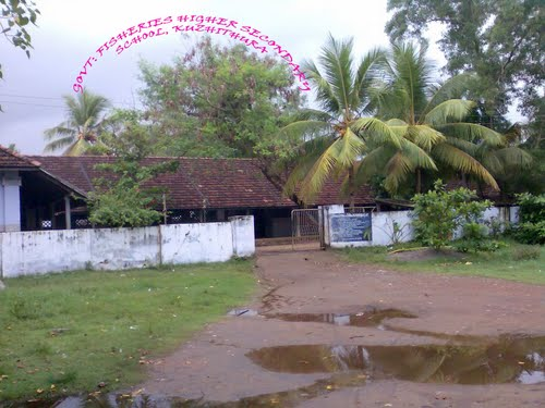 school